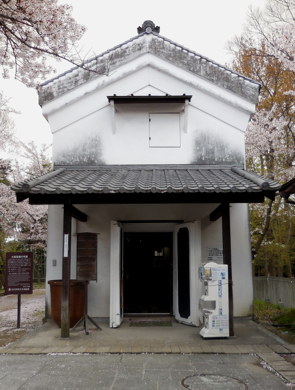 Toyonaka Old Rice barn